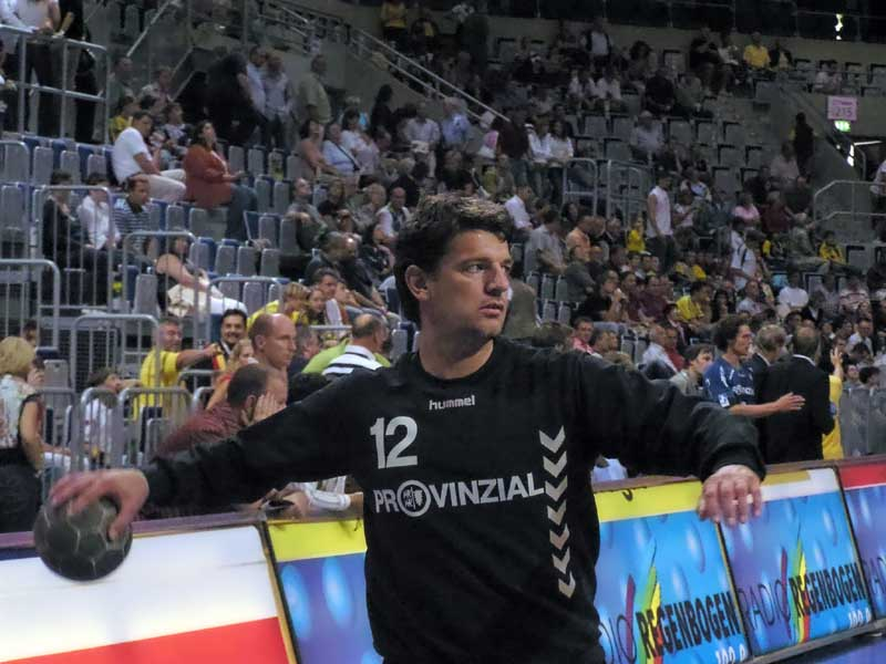 Jan Holpert, goal keeper from SG Flensburg-Handewitt on September 16th, 2006 prior the game vers. SG Kronau-Östringen.